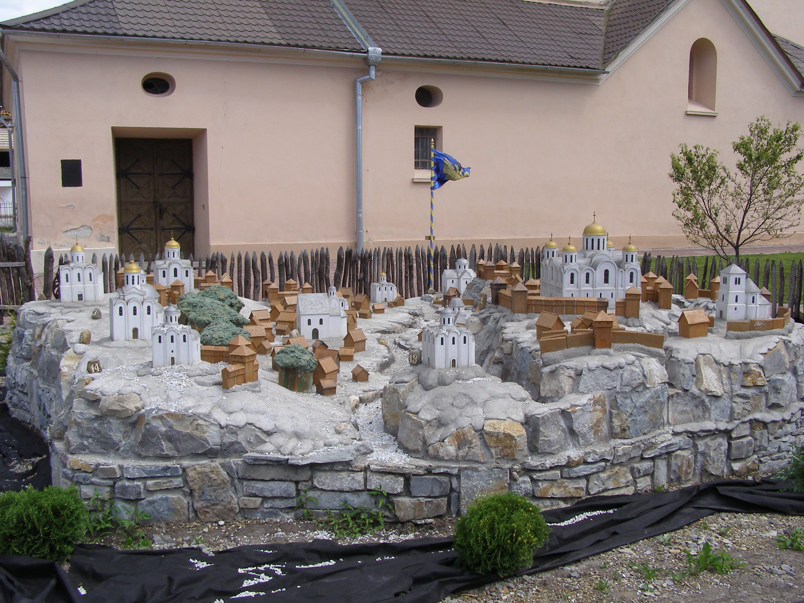 Halych, Ivano-Frankivsk Oblast, western Ukraine